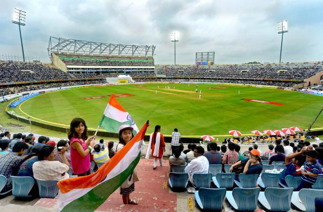 hyd stadium